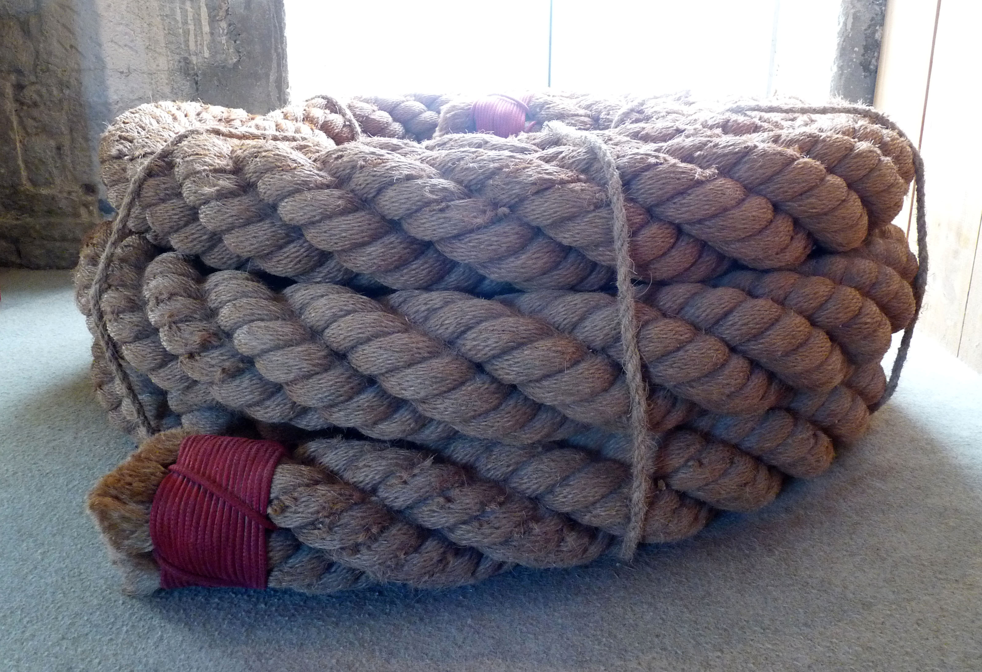 A stopped coil of cable-laid rope apparently made with coir fiber (== coco??); it is composed of 4 smaller hawser-laid 3-strand ropes, 15 metres long, and 250mm in diameter. Shown at the Corderie Royale of Rochefort (Charente-Maritime)